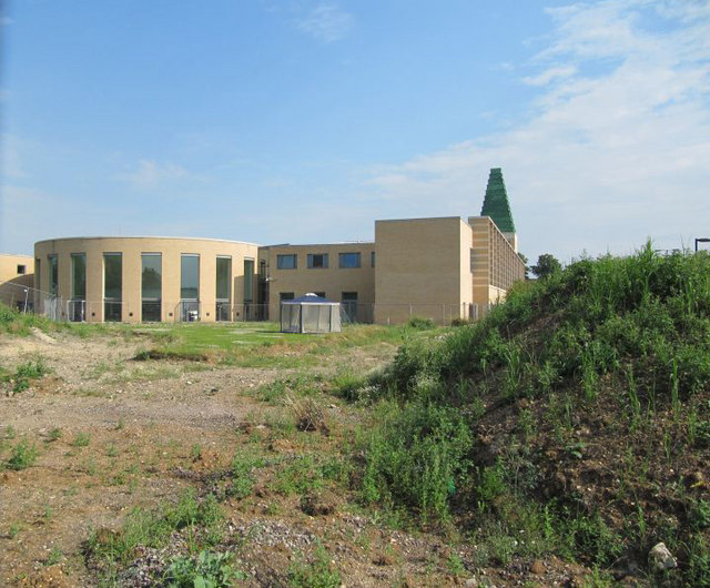 Saïd Business School, Rewley Road, Oxford, seen from the north